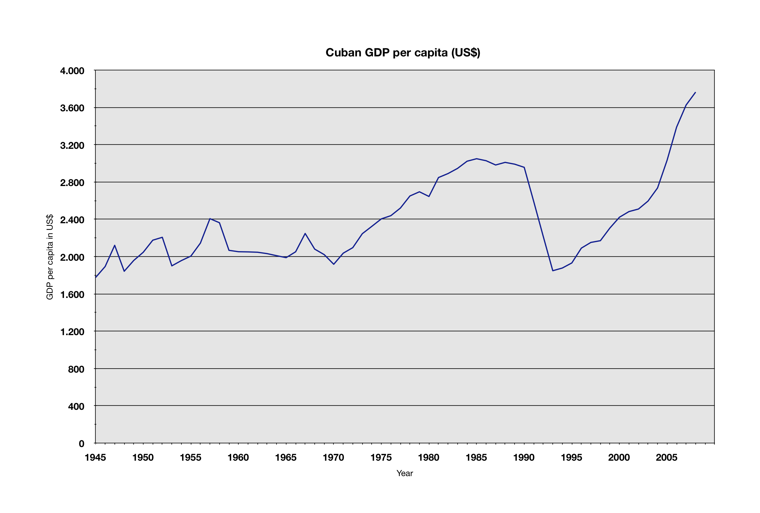 Cuba GDP per Capita in US$ (1945-2008), based on Maddison.